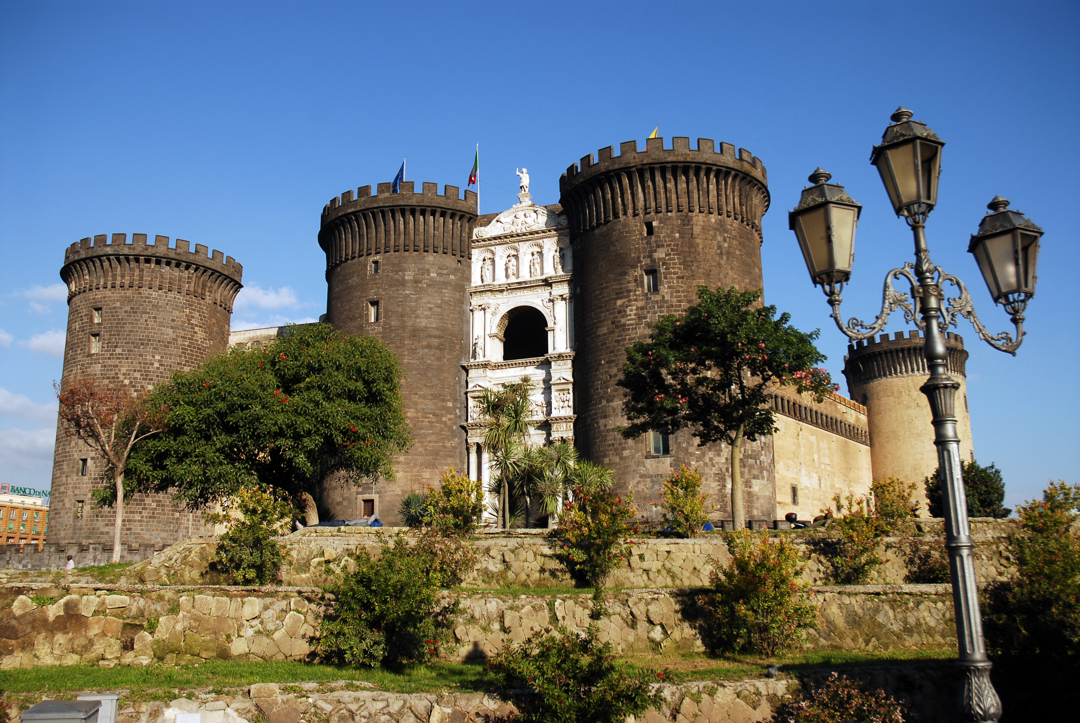 The Castel Nuovo (Maschio Angioino) (front view). Naples, Campania, Italy, Southern Europe.